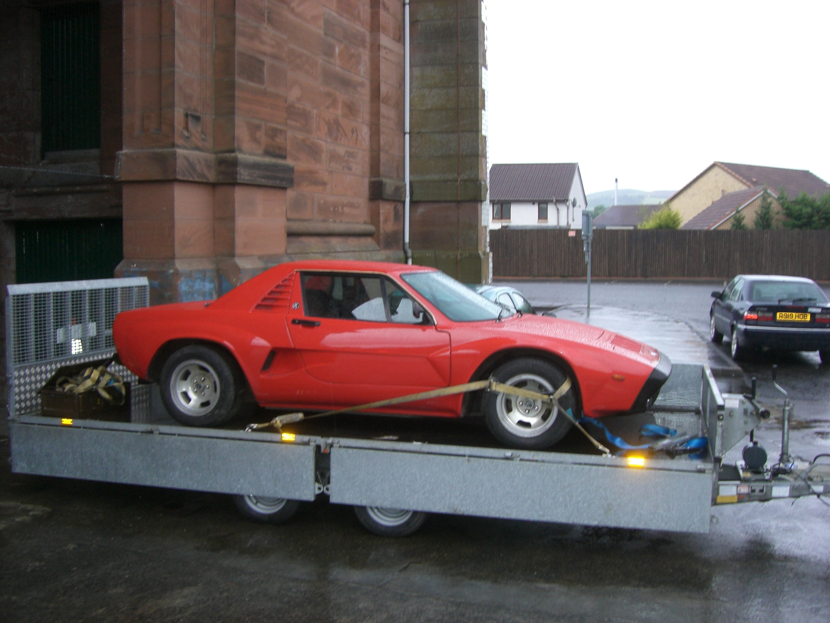 AC 3000ME (Scotland Version, 1984-1985, right side). Leaving the museum (Motoring Heritage Centre Alexandria, West Dunbartonshire, Scotland)(temporary closure)